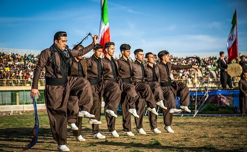 Celebration of the first day of Newroz/1st Xakelêw in Sanandaj. see full gallery.